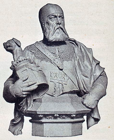 John II, Burgrave of Nuremberg (died 1357). The helmet on his right arm is decorated with a hound's head (see Johann II. in Liste Siegesallee). Side bust for the monument commemorating Louis V, Duke of Bavaria, called the Brandenburger, in the former Siegesallee in Berlin. Sculptor: Ernst Herter. The sculpture was unveiled on 7 November 1899.